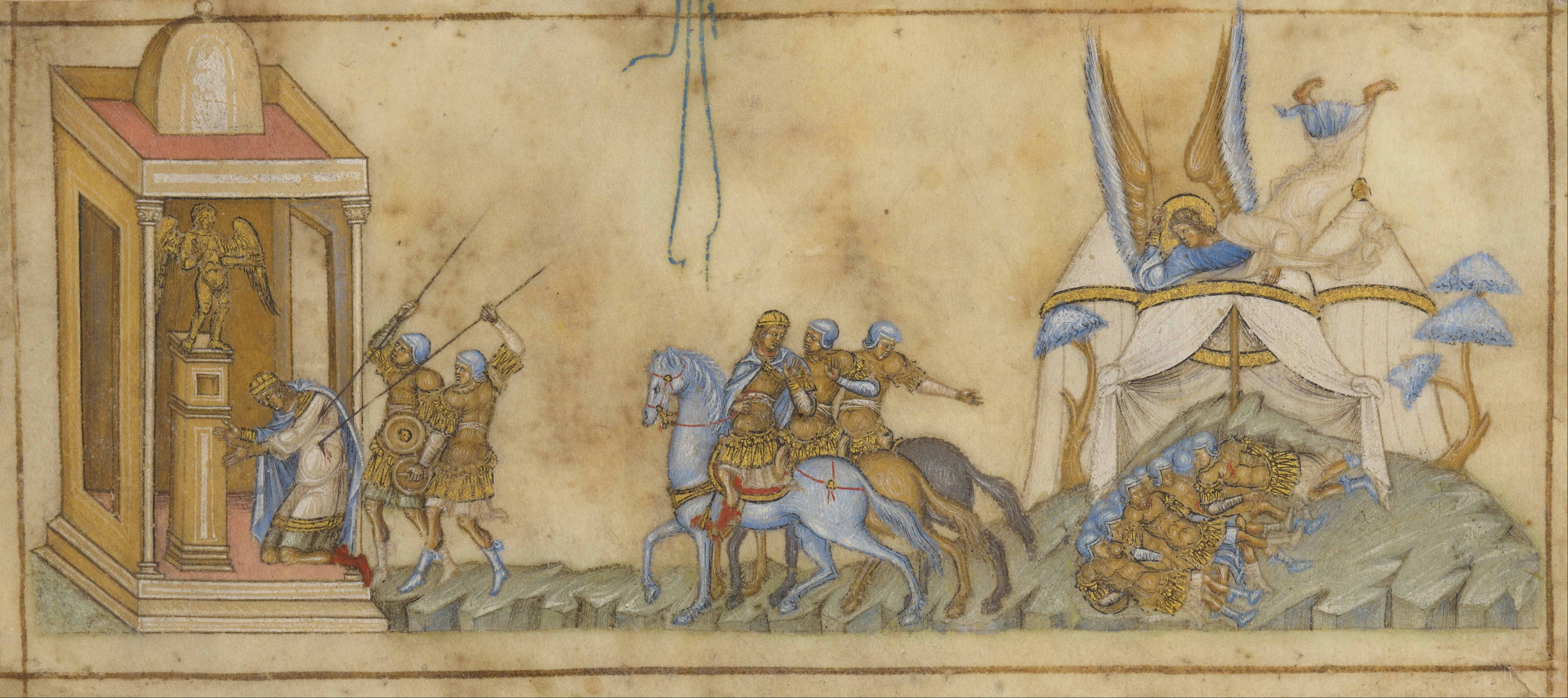 One of two surviving miniatures from a book of Old Testament prophets made in Sicily around 1300, the illumination shows three separate episodes from the Israelites' battle with Sennacherib, king of Assyria, now Iraq, as recounted by the prophet Isaiah. The angel flying above a pile of corpses on the right illustrates the first episode: Then the angel of the Lord went forth, and smote in the camp of the Assyrians a hundred and eighty-five thousand; and when they arose early in the morning, behold, they were all dead corpses. In the center scene, surrounded by dead corpses, Sennacherib and his remaining troops depart for the city of Nineveh. The story's climactic ending occurs on the left: Sennacherib's two sons betray him, stabbing him in the back as he prays before a pagan idol. His death saves the Israelites from Assyrian occupation. The artist painted the miniature in an elegant late Byzantine style seen in the careful modeling of the horses, the figures' elongated proportions, and the finely observed details of the soldiers' armor. The blue lines descending into the top center of the miniature are the remains of a decorative letter from the now-lost text above.